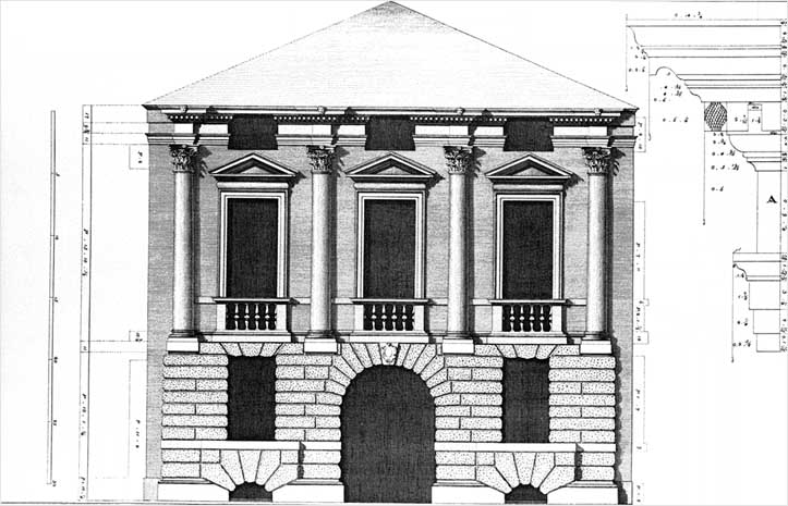 Palazzo Schio in Vicenza. Facade designed by Andrea Palladio, 1560. From Ottavio Bertotti Scamozzi ,1776